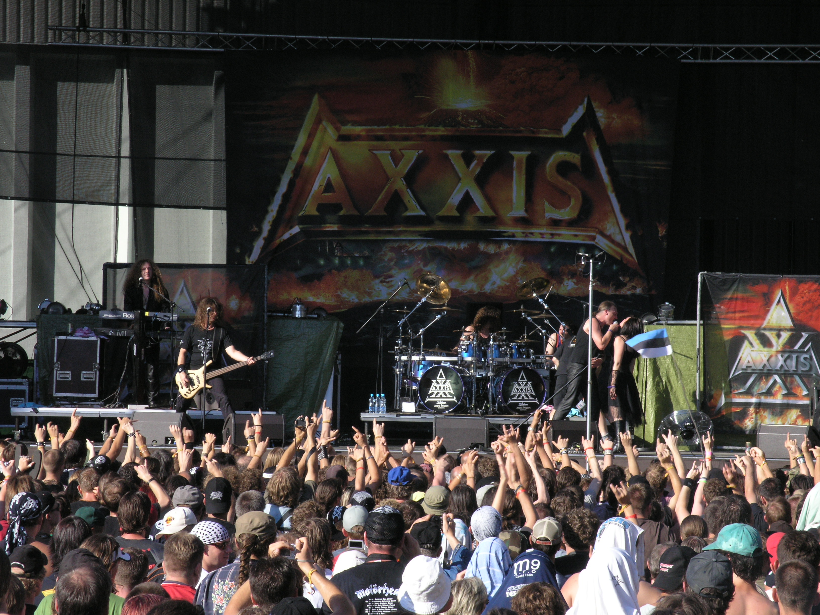 Music band Axxis during Masters of Rock 2007 festival